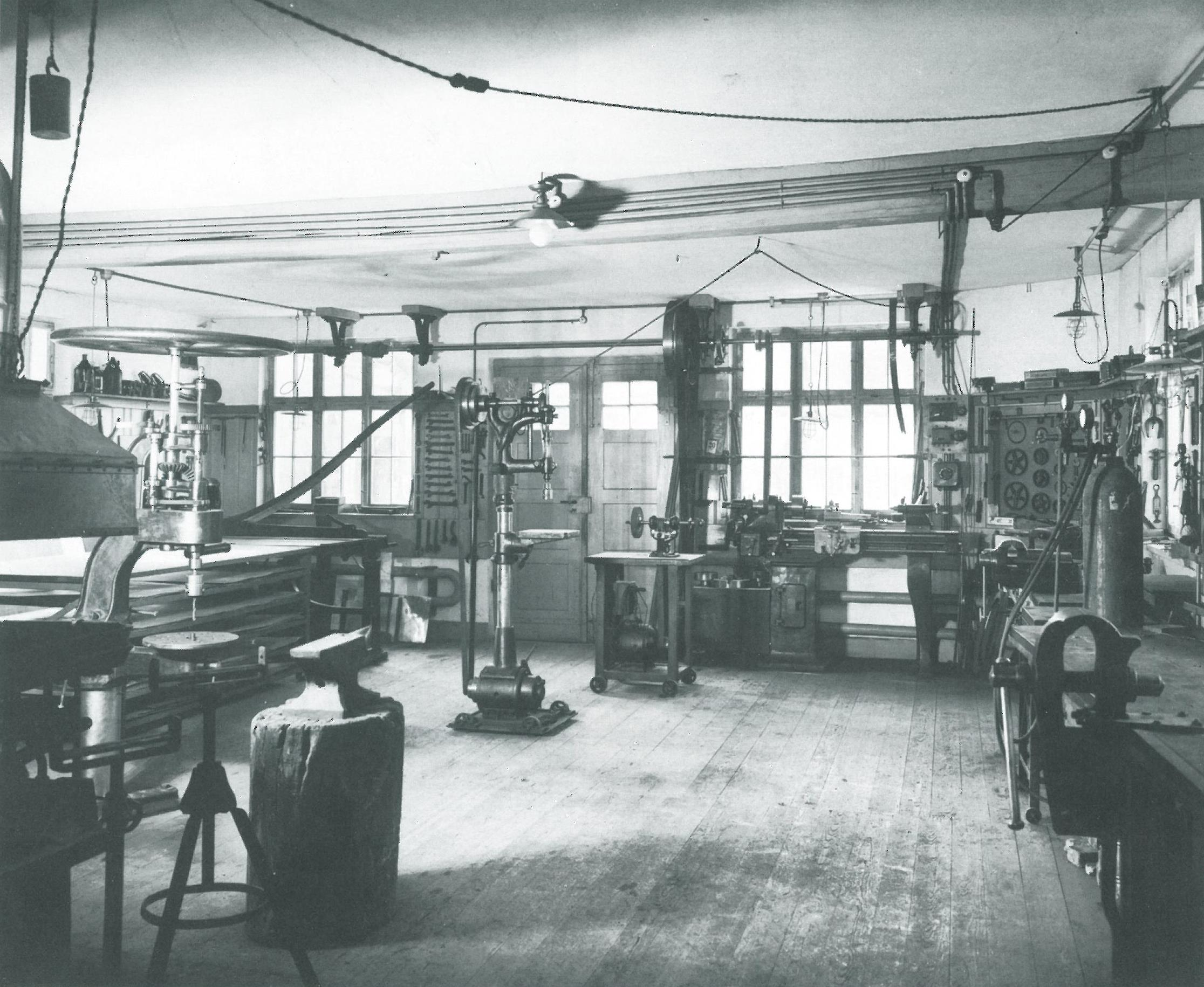 Josef Mohns (1866-1931) workshop in Schelklingen in the former Langestraße